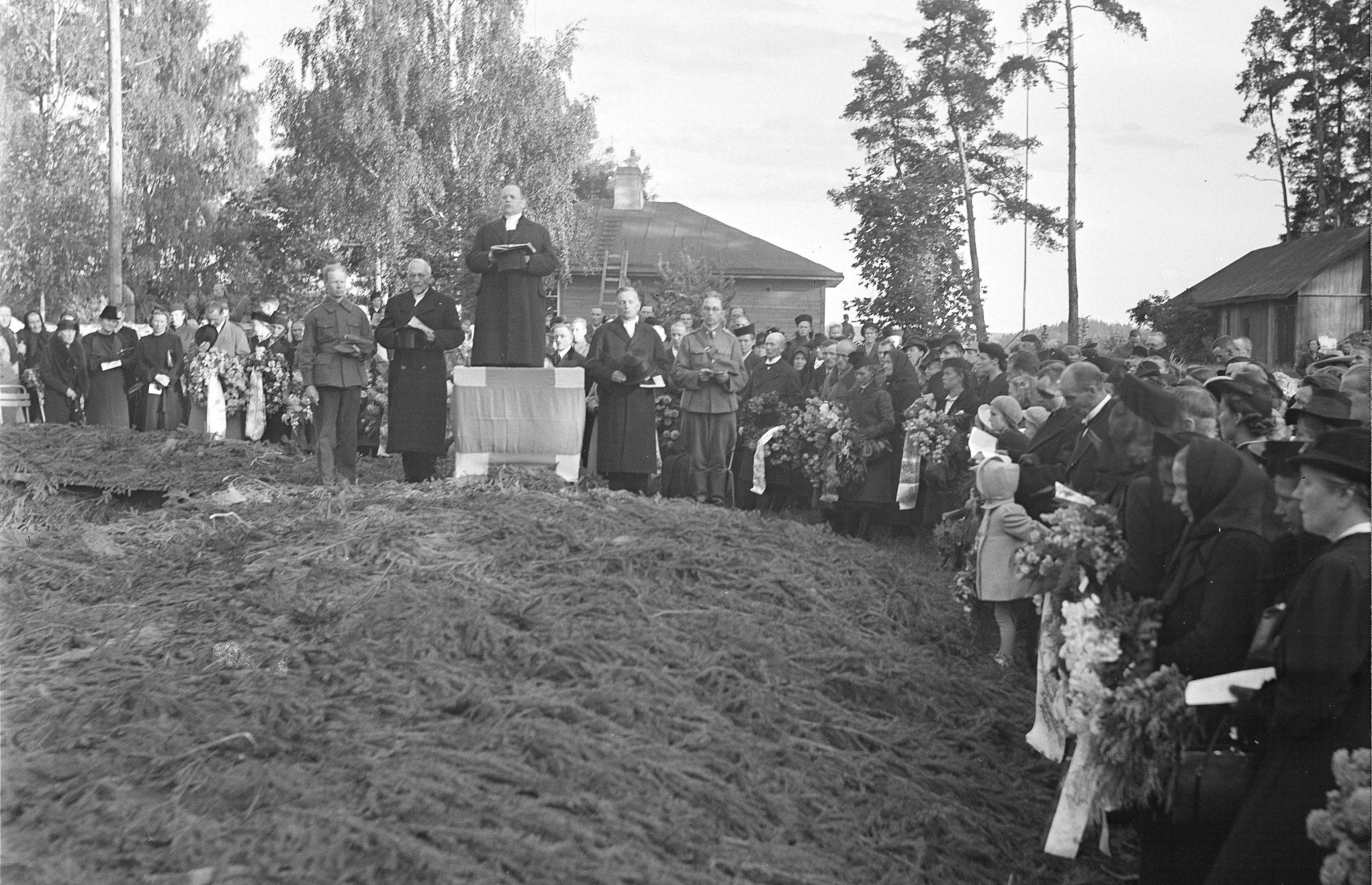 Photograph of the Finnish bishop Max von Bonsdorff (1882–1967) speaking.